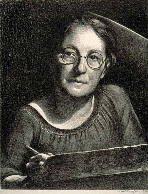 Mabel Dwight, self-portrait, 1932, lithograph on stone, 26.9 x 21 cm, edition of 50 printed by George Miller